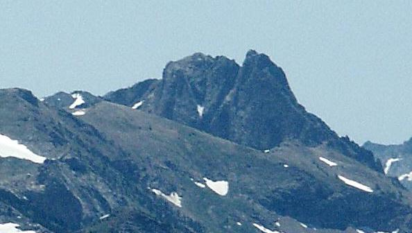 King Peak in the Ruby Mountains of Nevada, looking south from Liberty Peak.